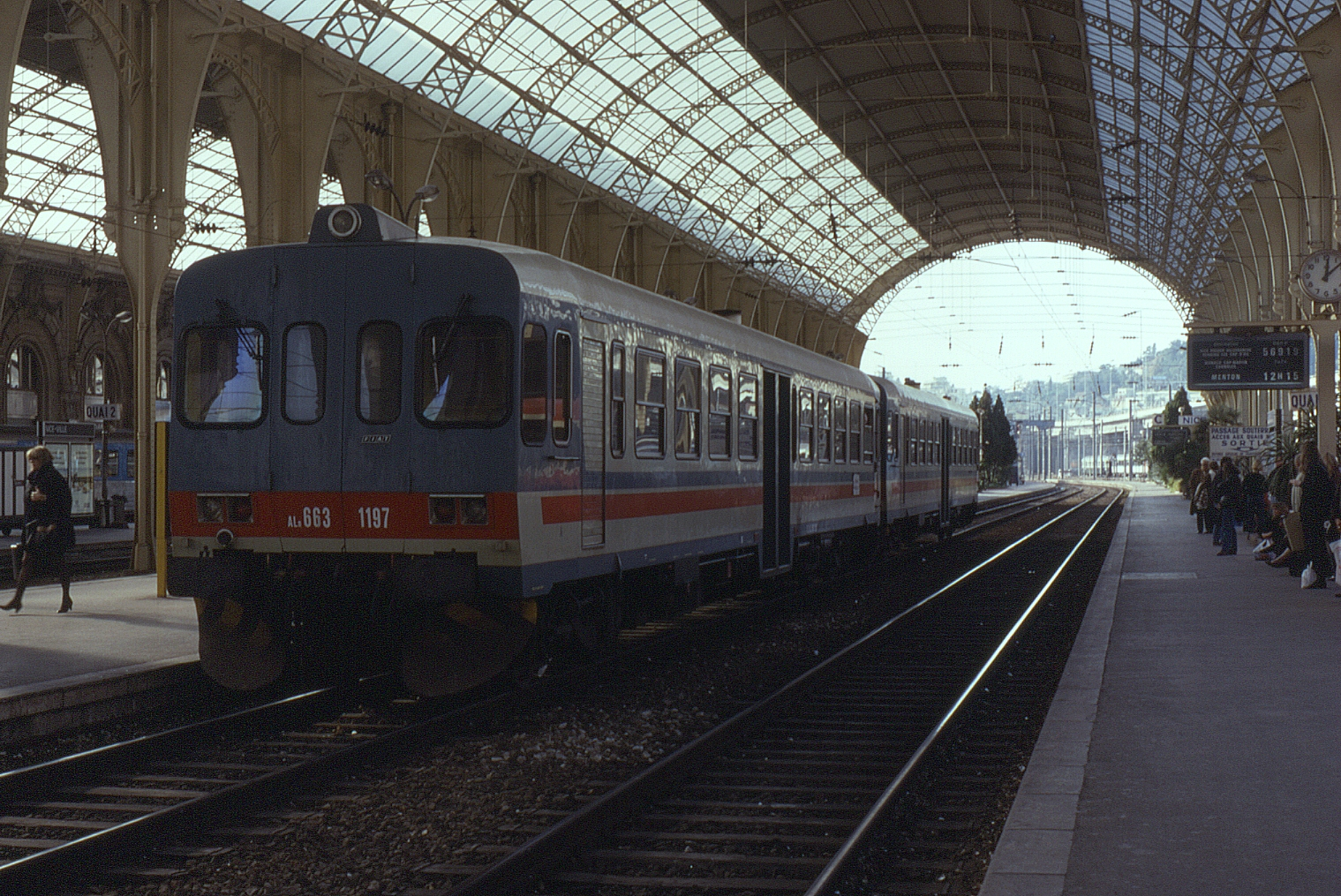 Italian DMUs are the usual traction on the line from Nice in France through to Torino via Cuneo. Seen at Nice-Ville on 16 December 1991 with ALn663.1197 closest to the camera.